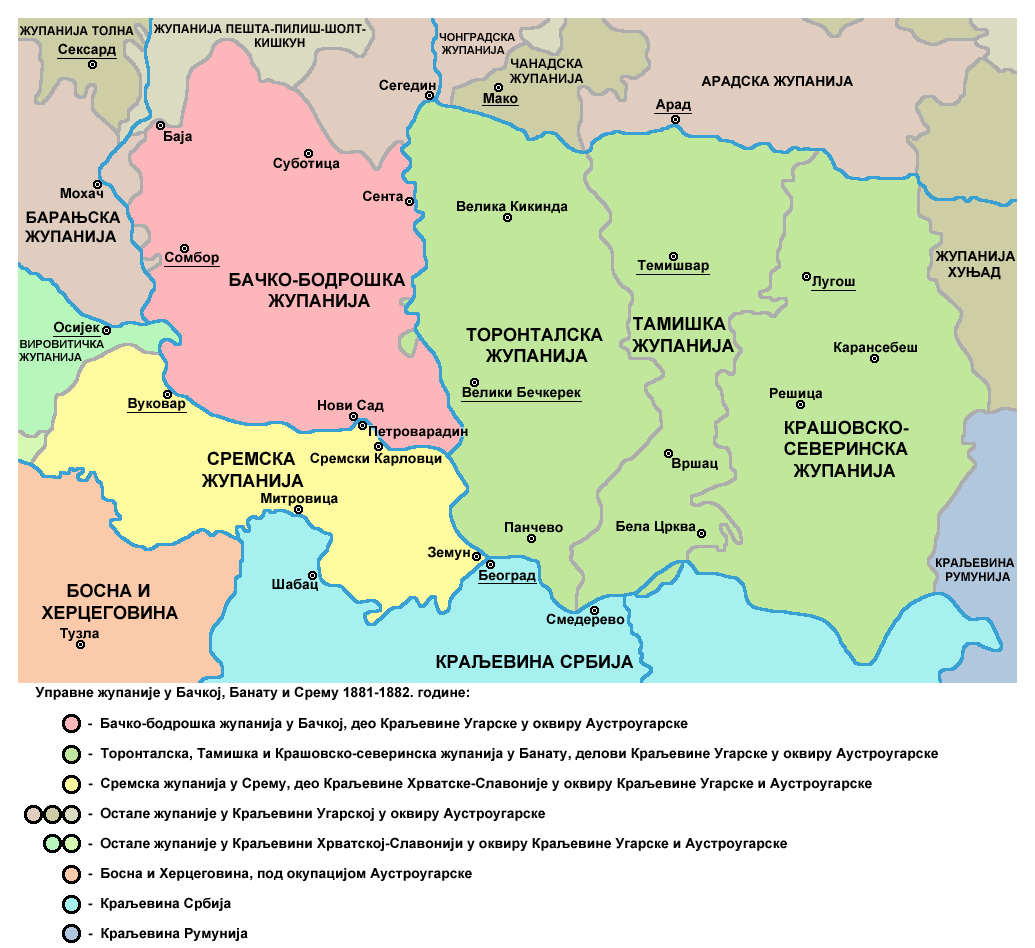 Historic map of counties in Bačka, Banat and Syrmia in 1881-1882.